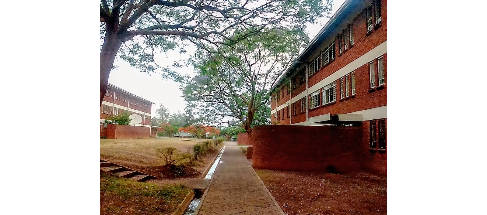 A typical Hostel at CUT This is an image with the theme "Africa on the Move or Transport" from: Zimbabwe